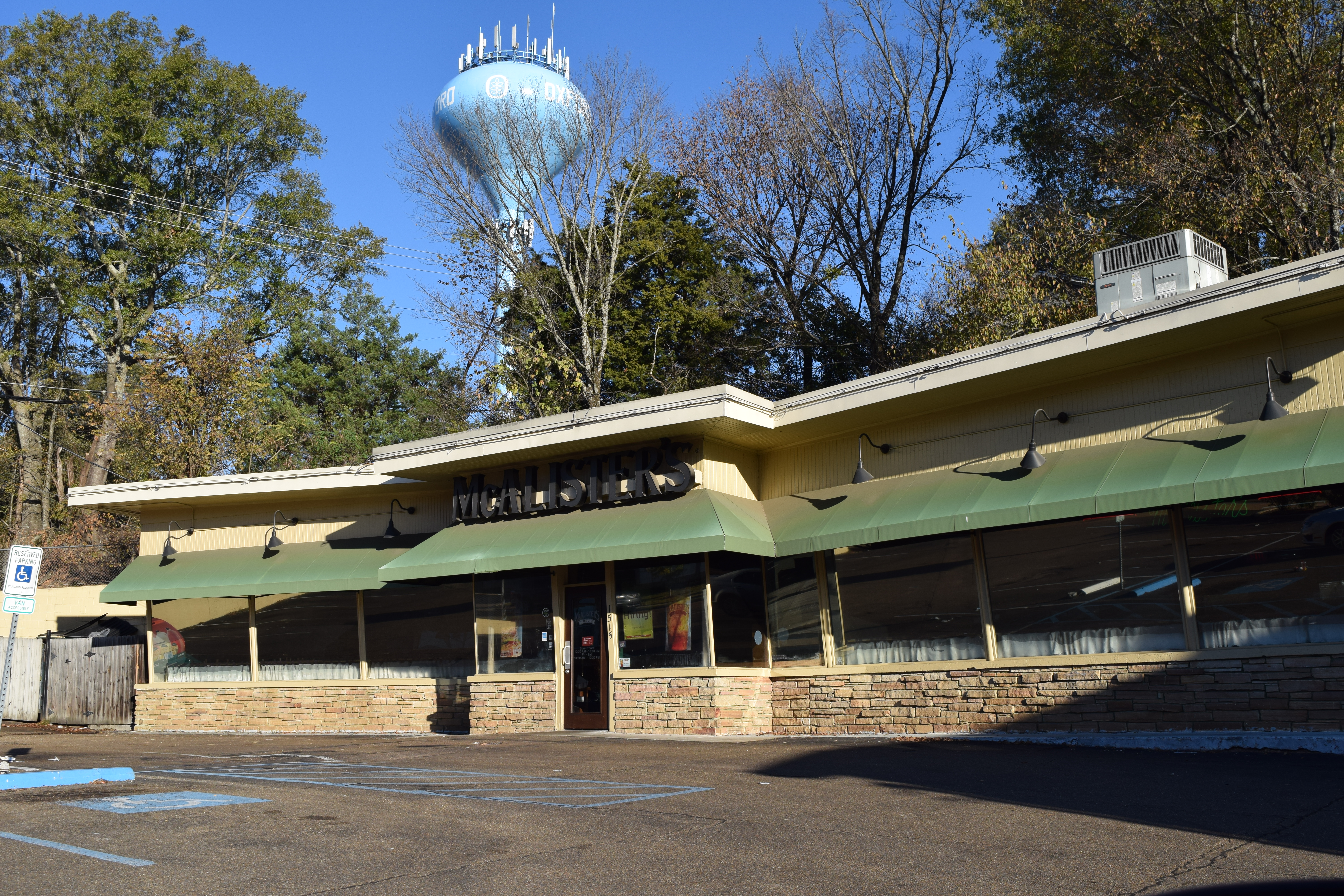 The original McAlister's Deli on University Avenue in Oxford, Mississippi